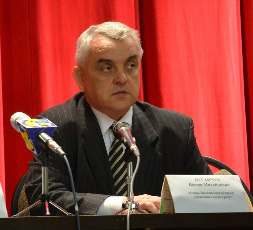 Viktor Buhaychuk, Ukrainian politician, head of Poltava Oblast State Administration